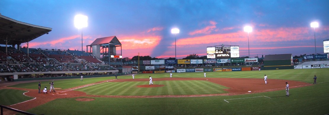 A baseball game at McCoy Stadium, Pawtucket, 2002 May 7. Photo by Meegs.